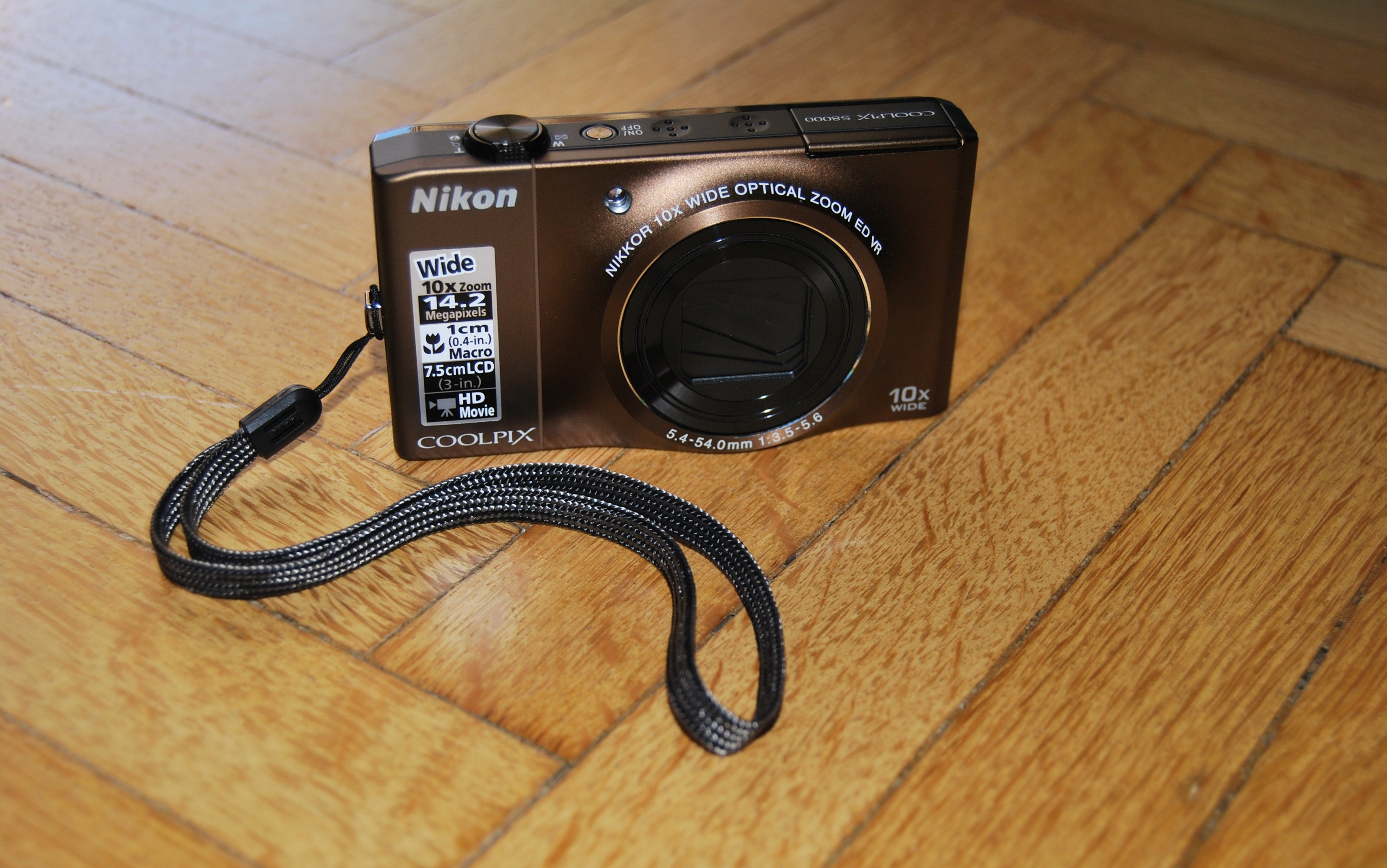 A Nikon Coolpix S8000